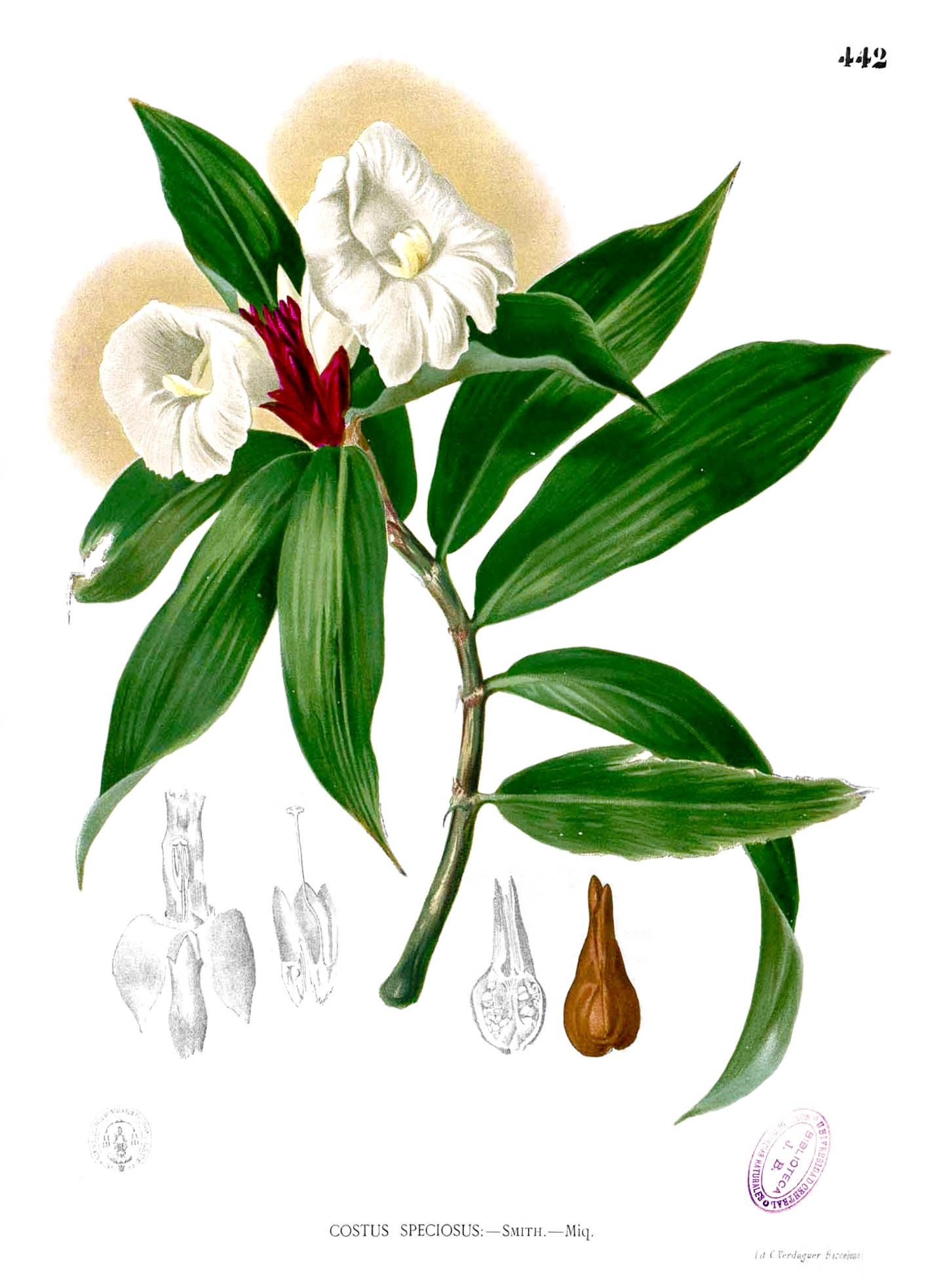 Plate from book